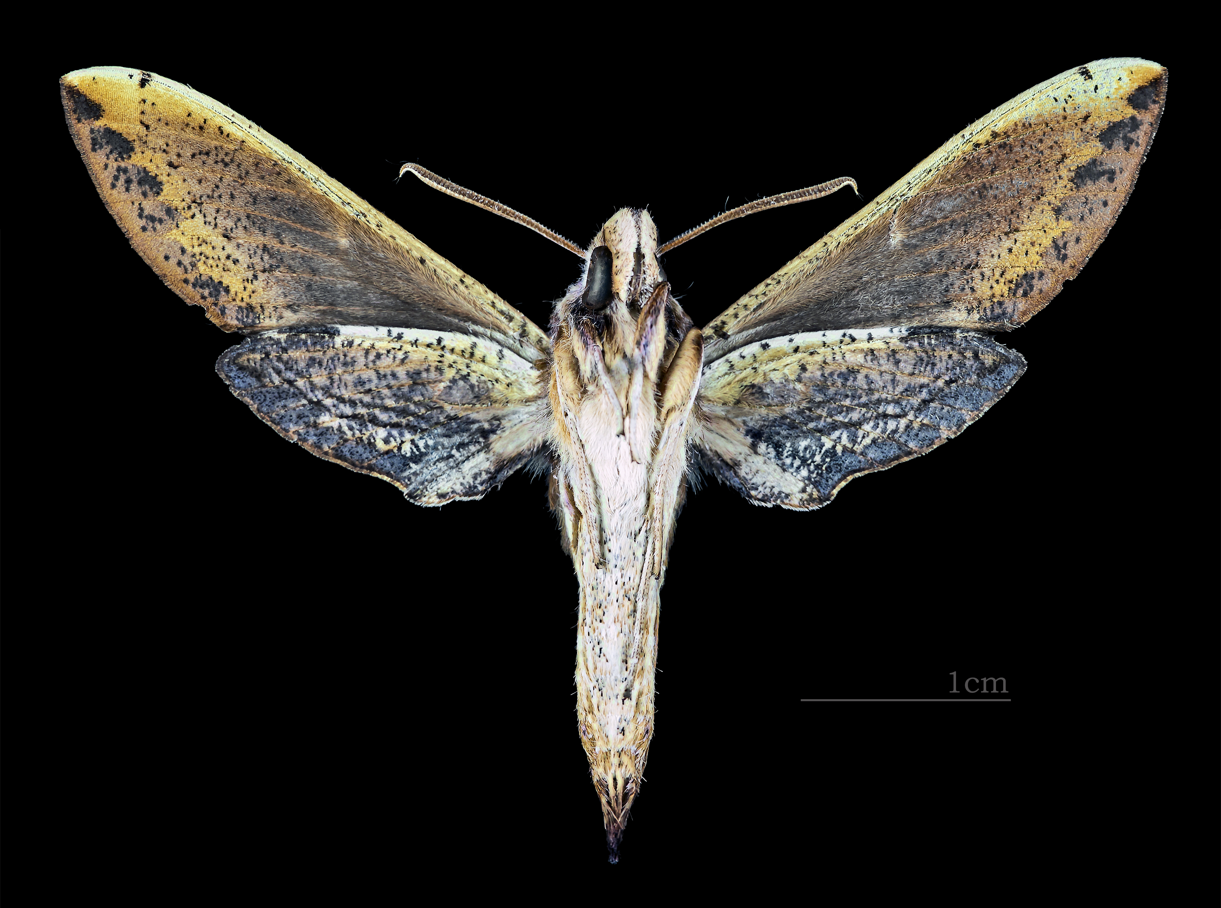 Xylophanes jordani - △ Ventral side